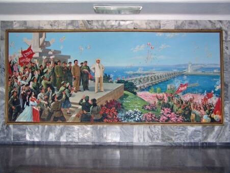 Painting of the West Sea Barrage in the small museum at the West Sea Barrage, near Nampo, North Korea. Photo taken in August 2005.